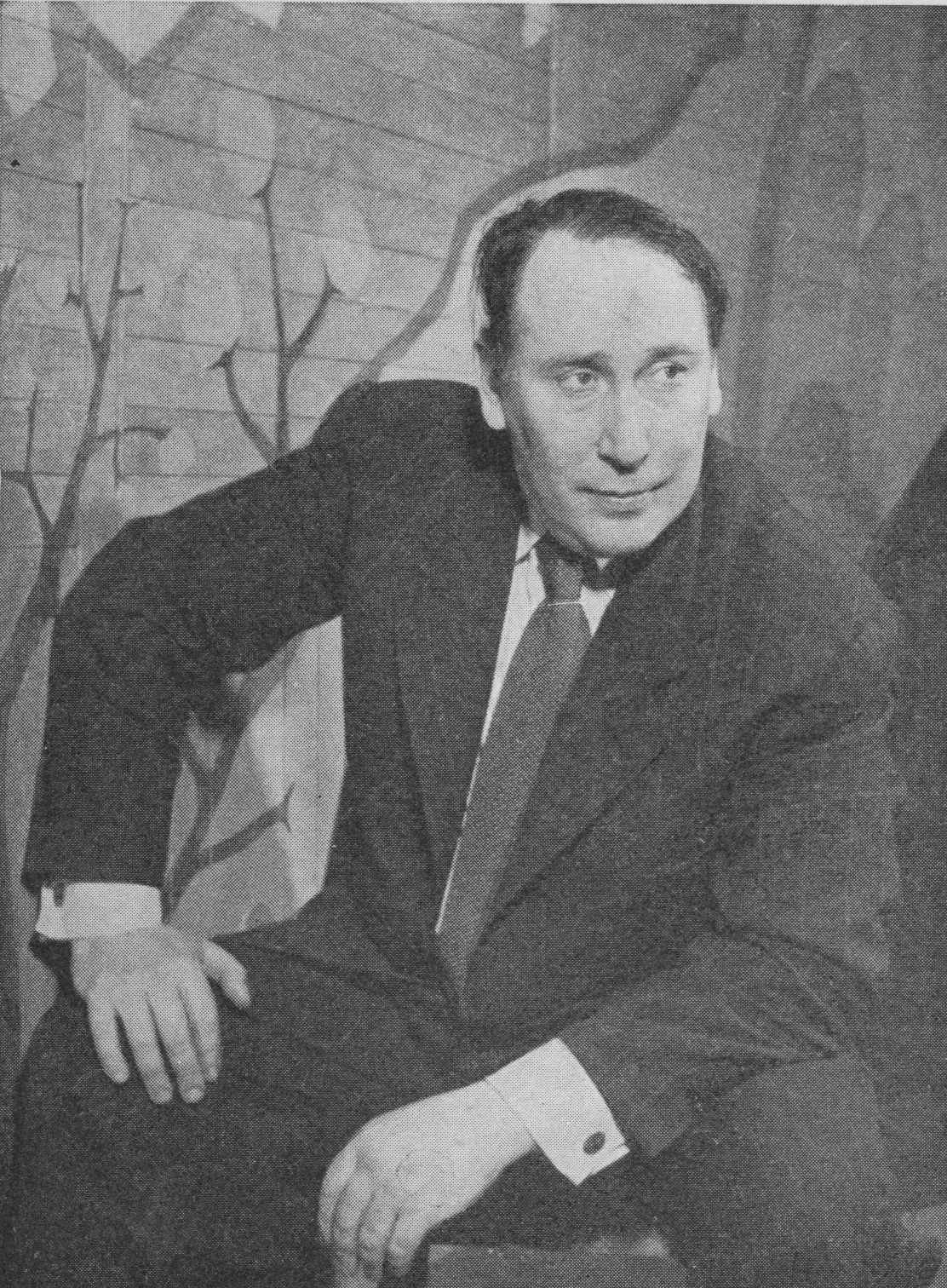 Uno Vallman